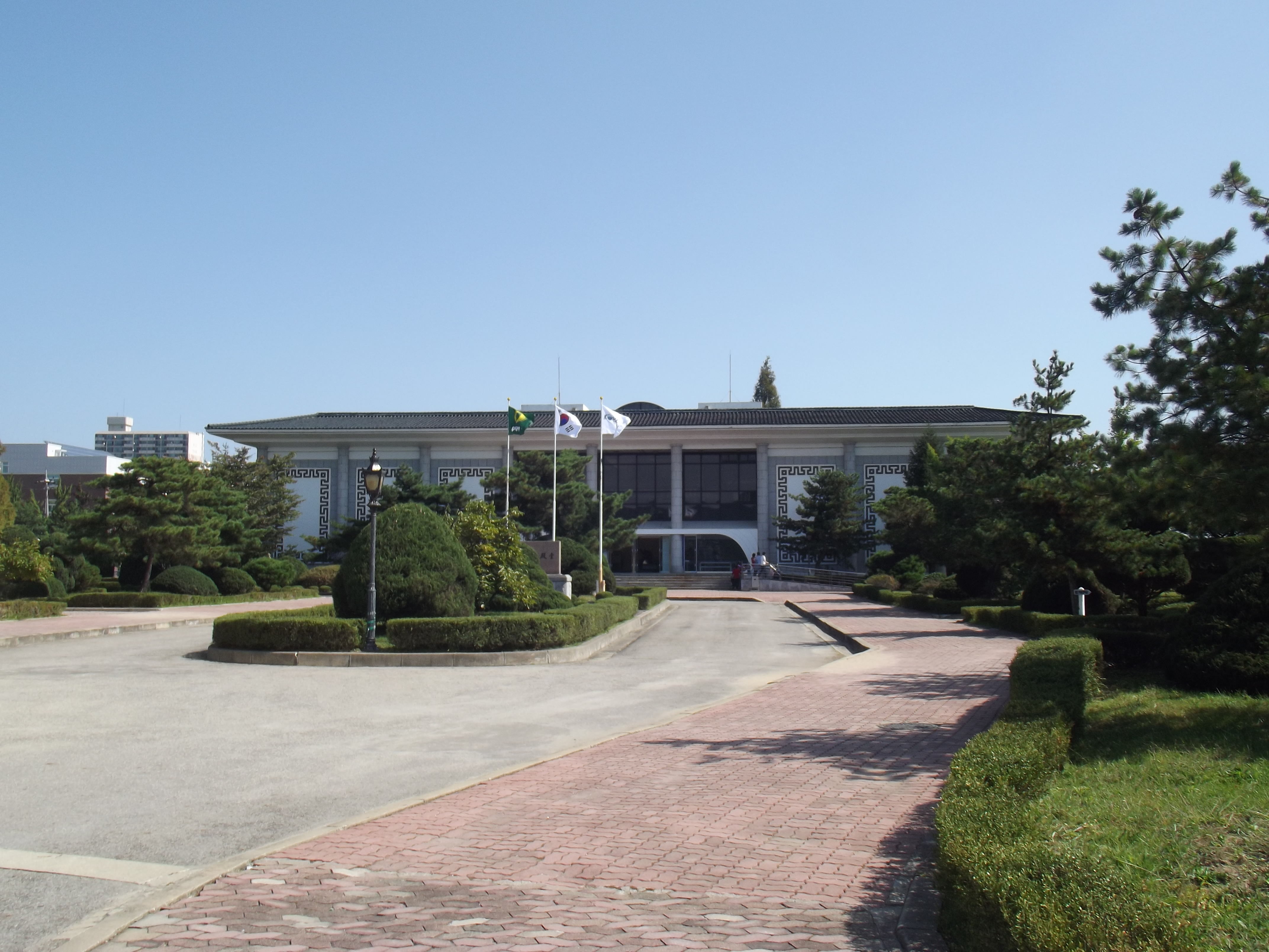 South korean railway museum. Main building.